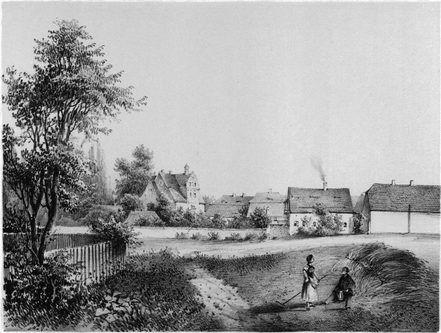 manor Lossa in its estate of 1859